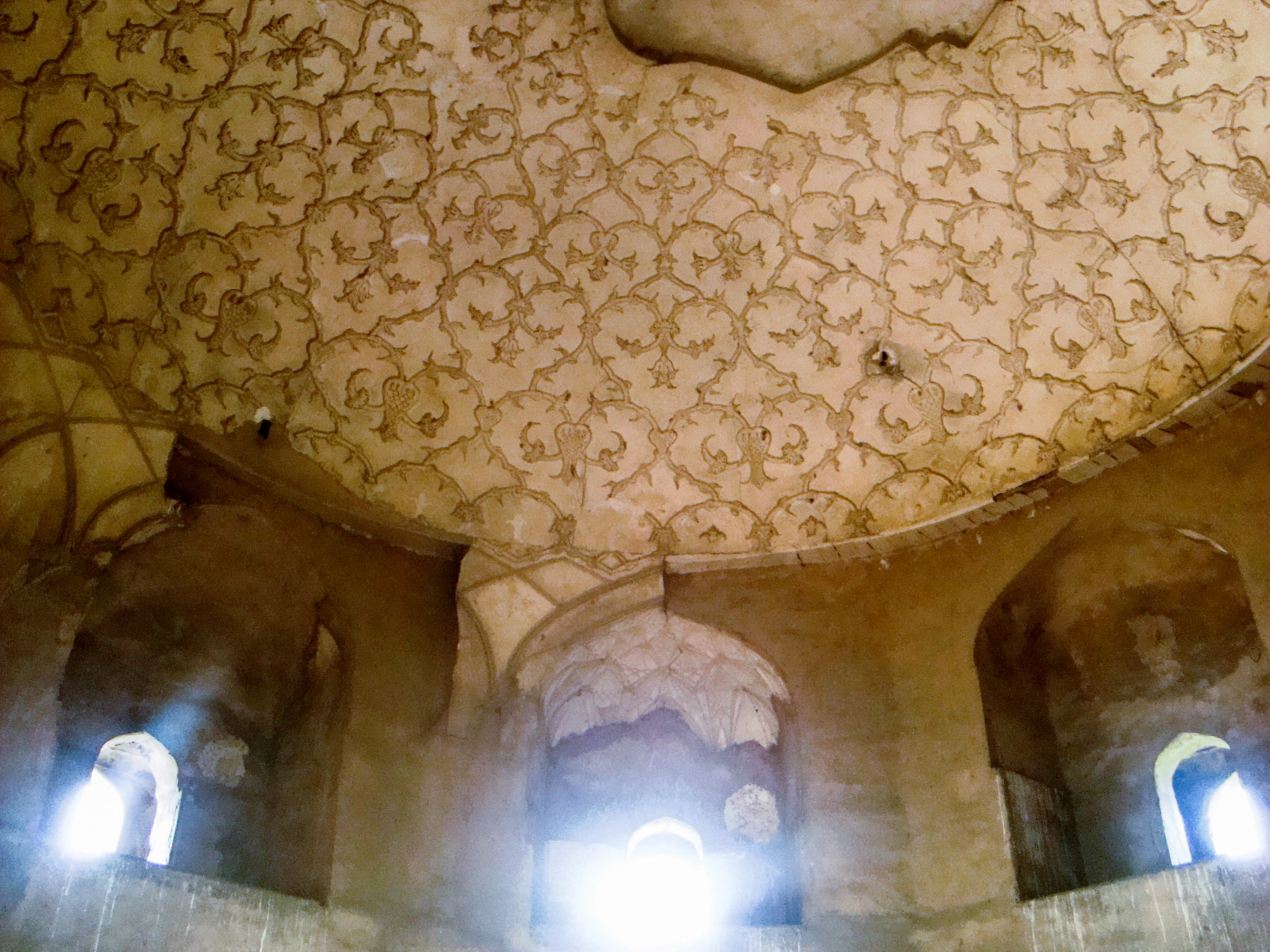 Tomb of Asif Khan This is a photo of a monument in Pakistan identified as the PB-43